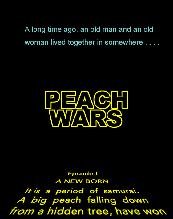 A spoof of Star wars opening crawl, based on File:Opening crawl.jpg.